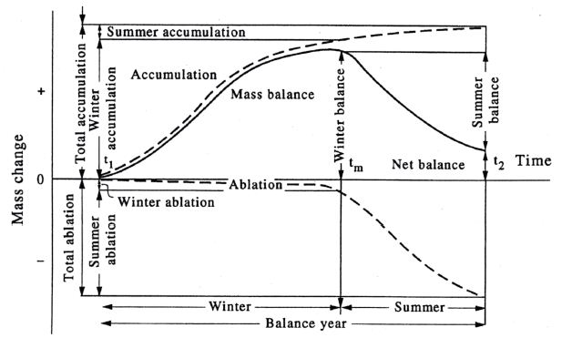 Annual cycles of accumulation and ablation on mid-and high-latitude glaciers, showing definitions of mass balance terms (Paterson1994)